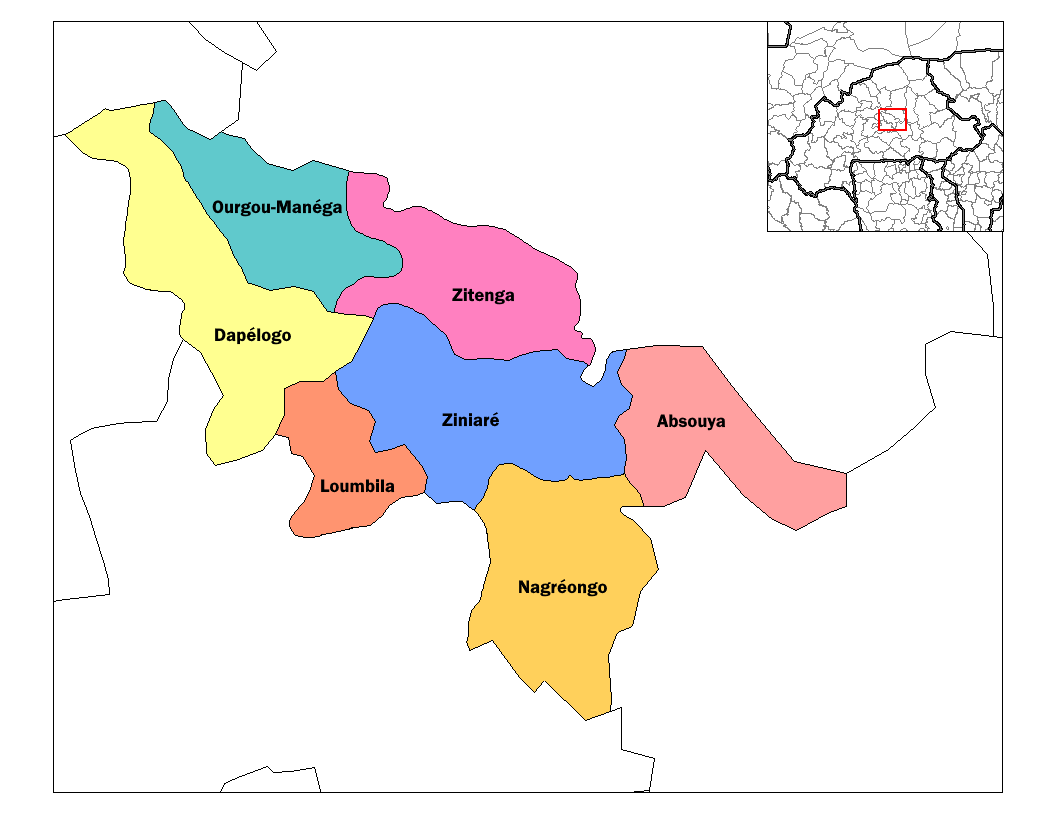 This map has been uploaded by Osiris fancy from to enable the Wikimedia Atlas of the World. Original uploader to was Rarelibra. Osiris fancy is not the creator of this map. Licensing information is below. Map of the departments of Oubritenga province in Burkina Faso. Created by Rarelibra 03:31, 30 September 2006 (UTC) for public domain use, using MapInfo Professional v8.5 and various mapping resources.